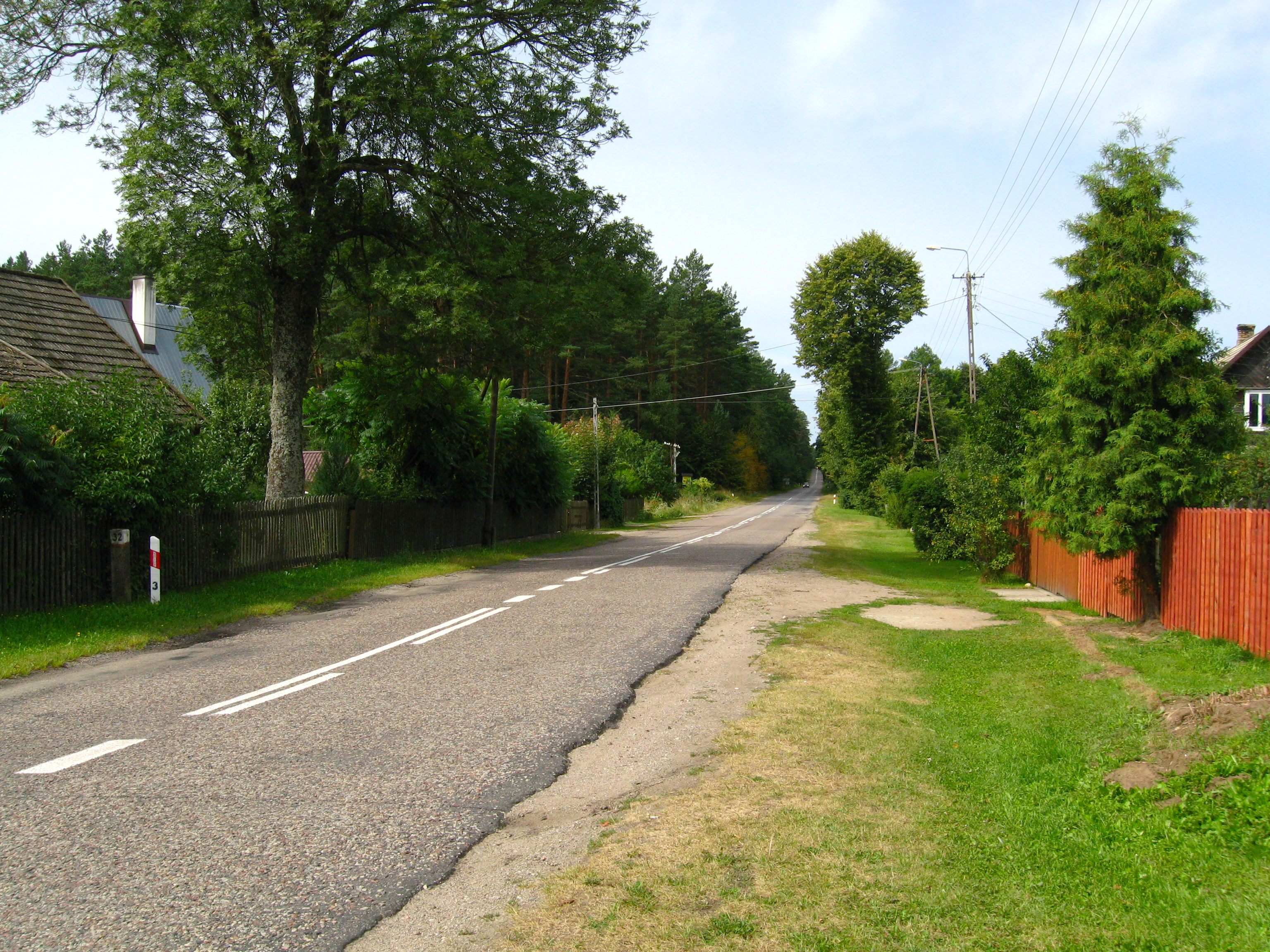 Podsokołda, voivodeship road 676